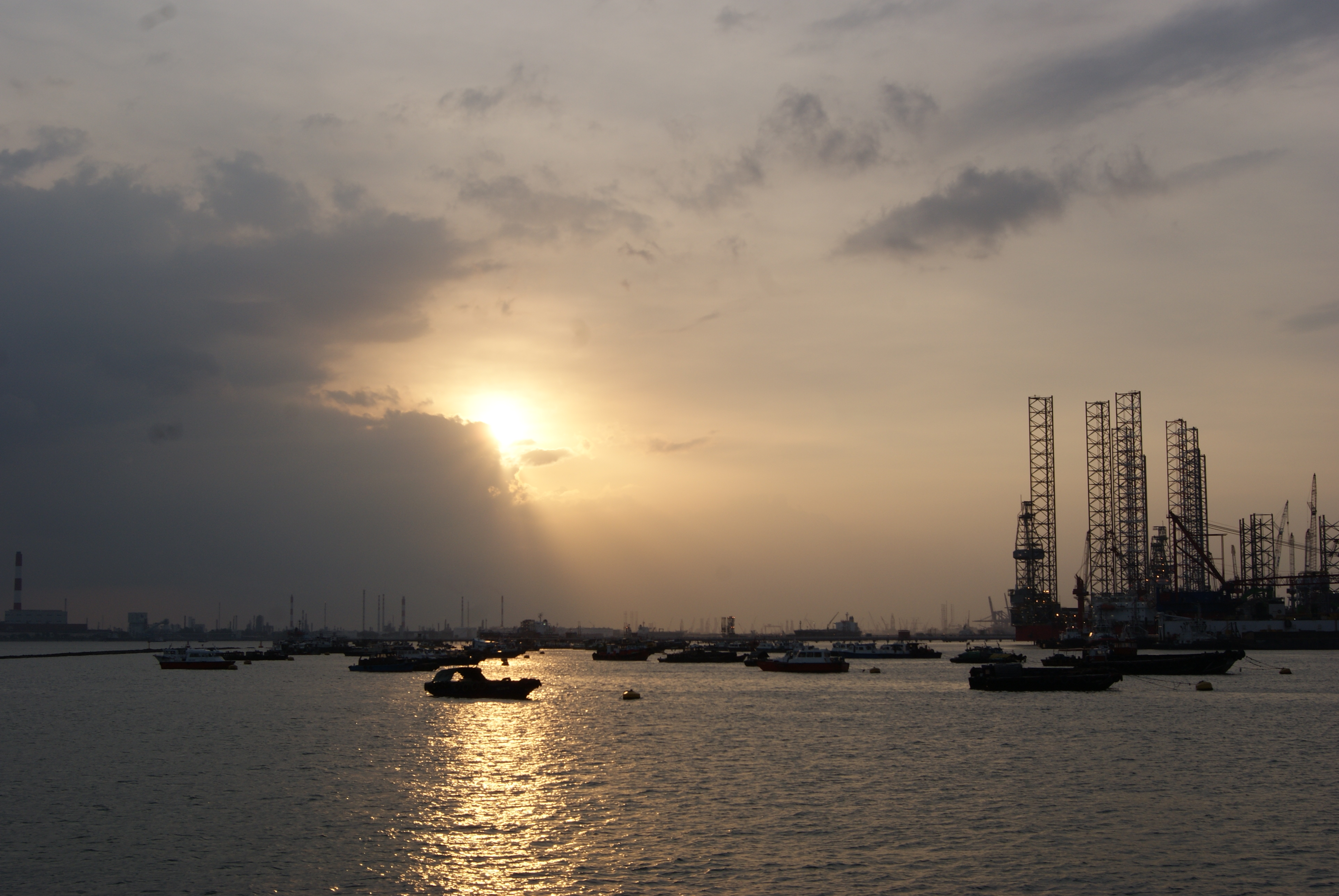 Ships near Jurong Island, Singapore, at sunset.